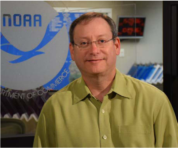 NHC Hurricane Specialists Unit branch chief James Franklin